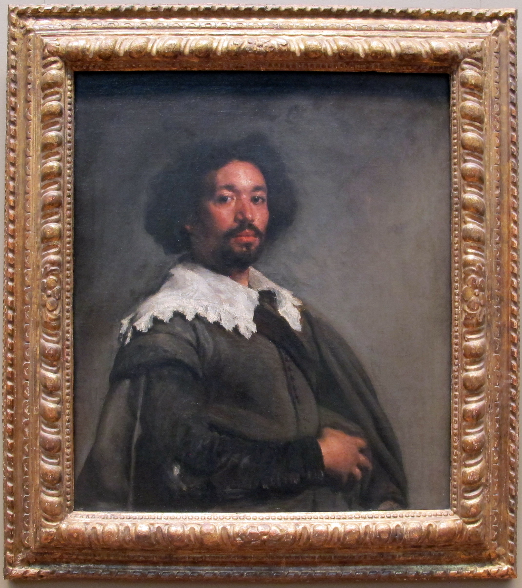 Spanish paintings in the Metropolitan Museum of Art